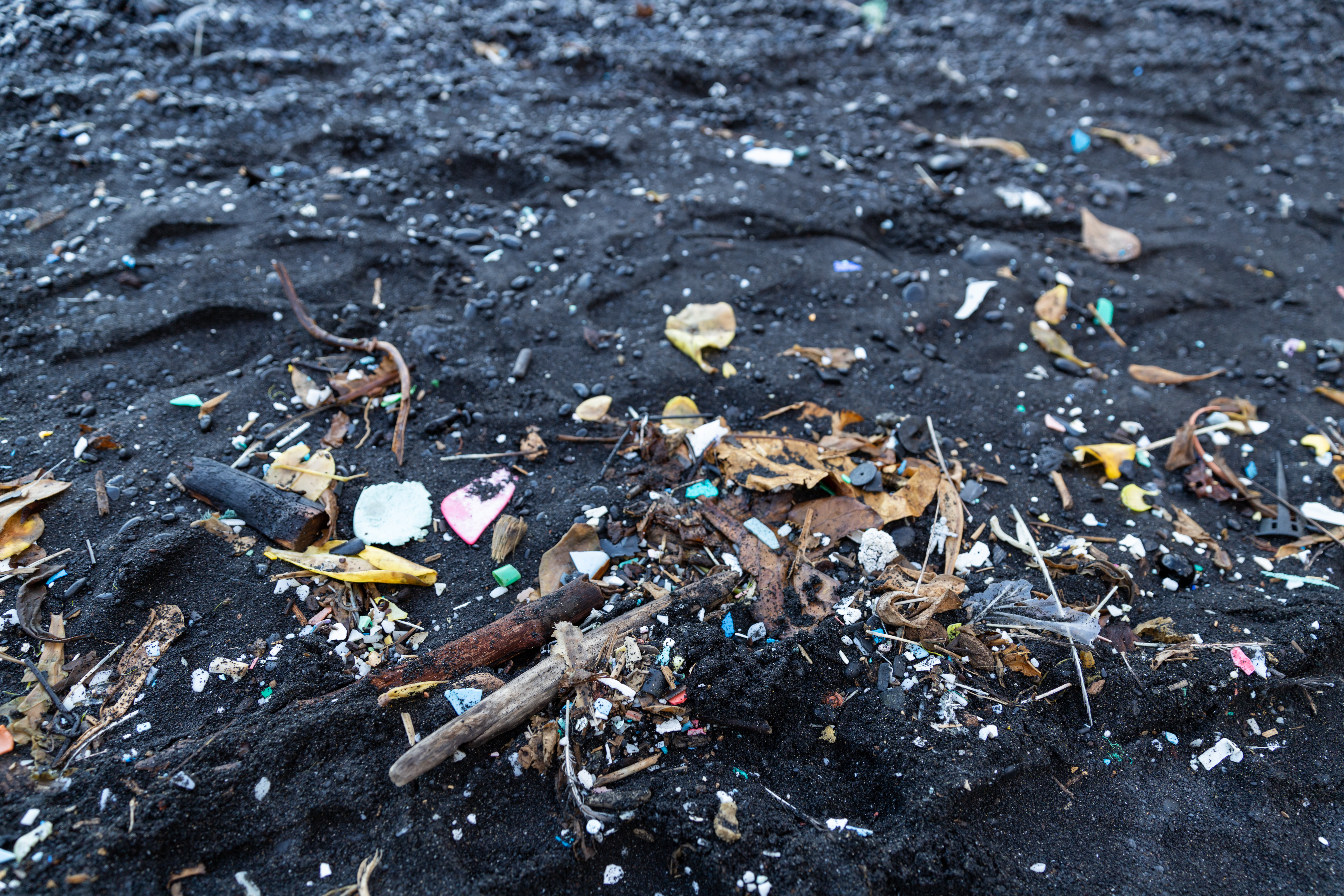 Garbage Black sand beach Maui Hawaii Road to Hana